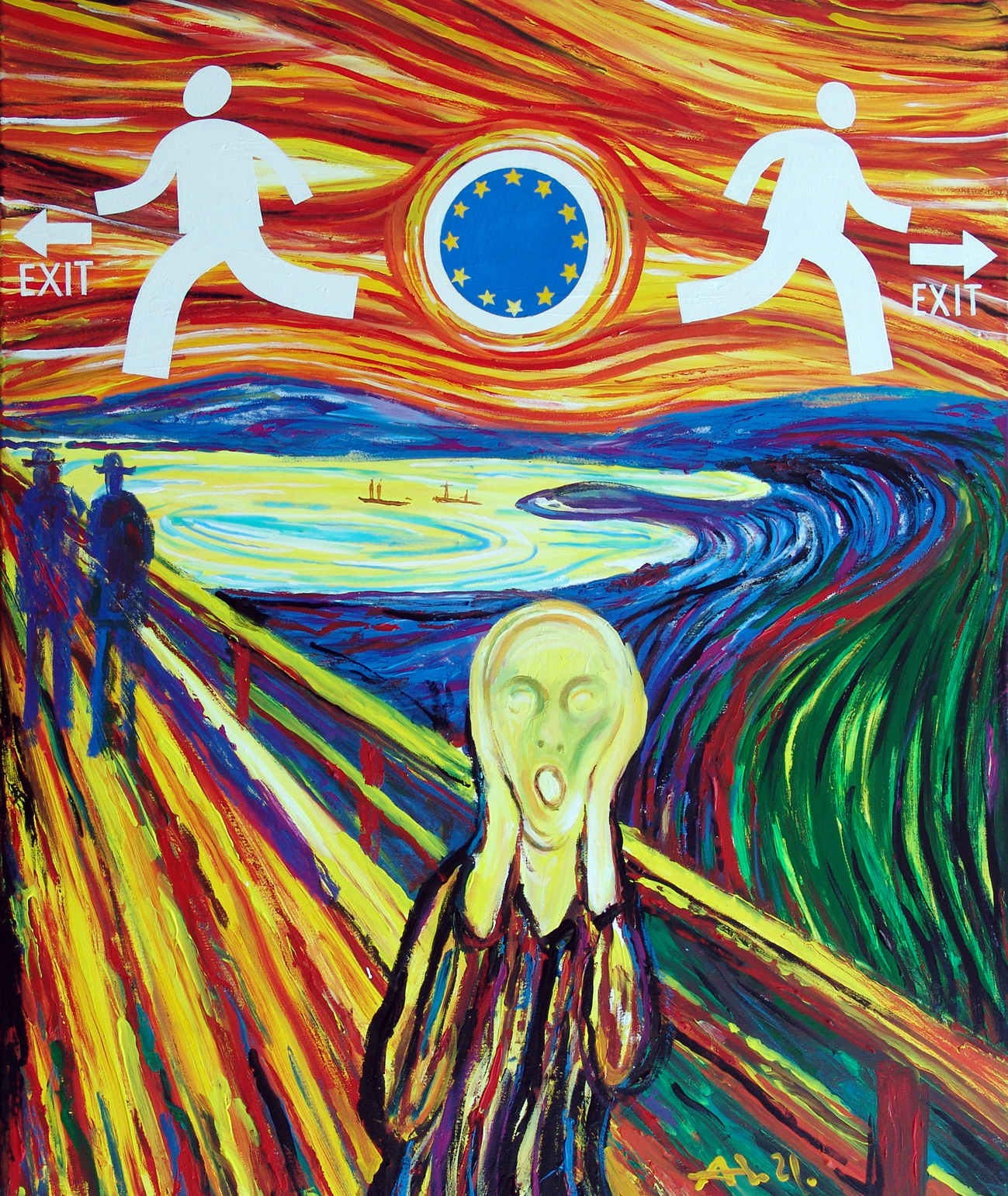 140 x 100 cm Oil on Canvas, 2007